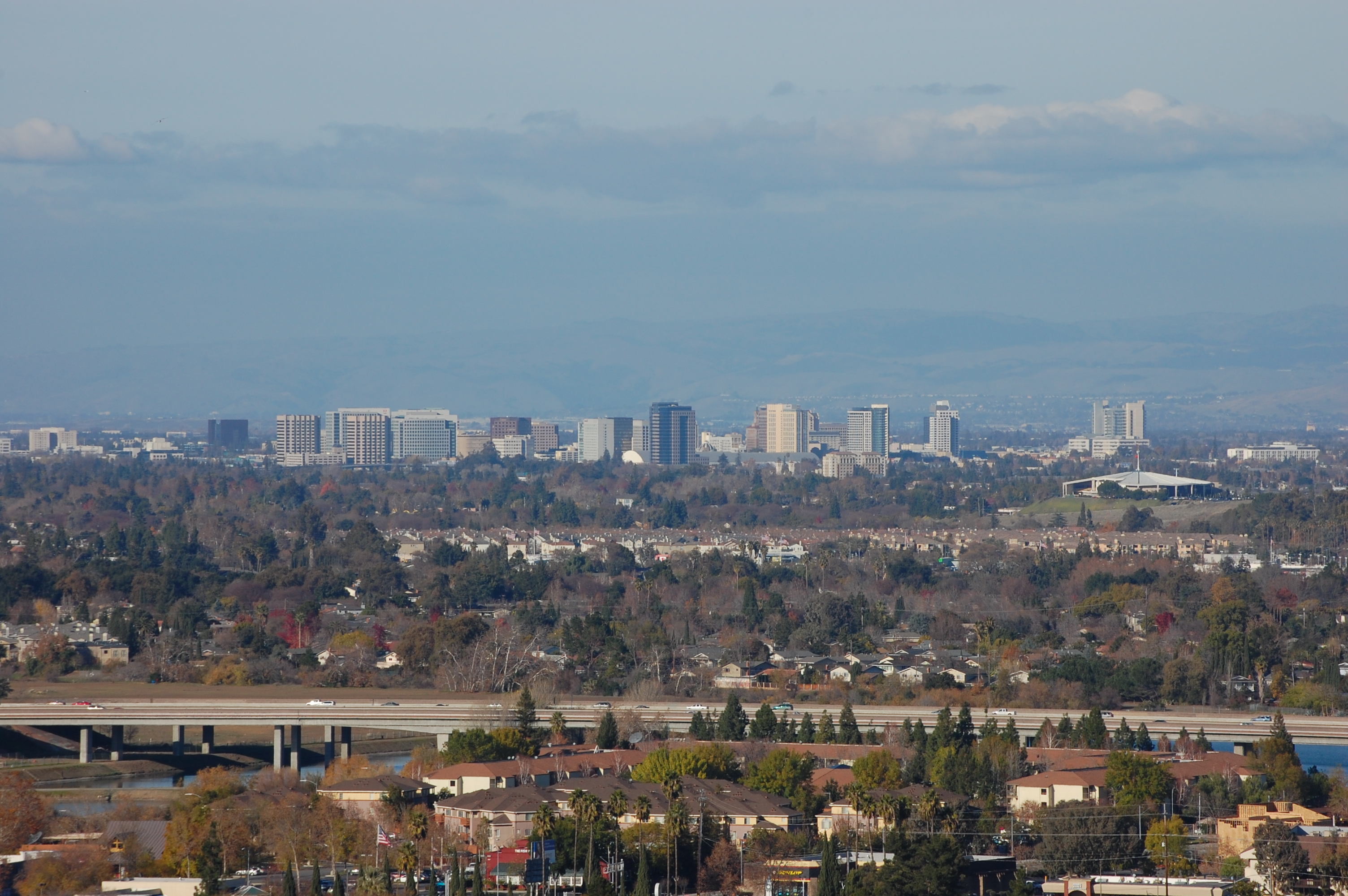 Downtown of San Jose, California, USA. View from the hill near Almaden lake.